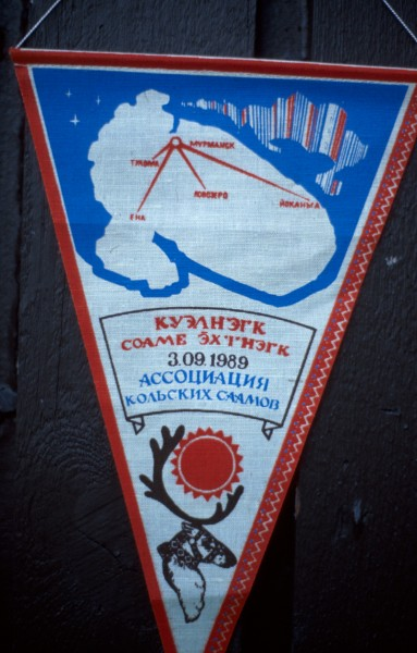 Pennant of the Kola Saami Association